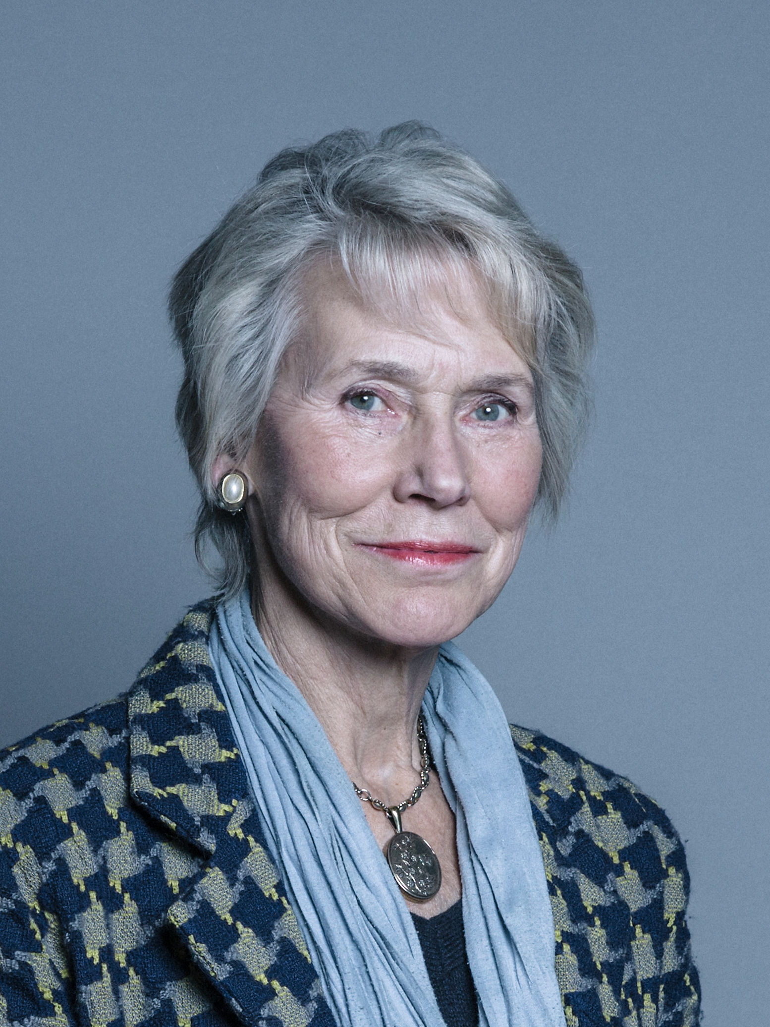 Official portrait of Baroness Bottomley of Nettlestone